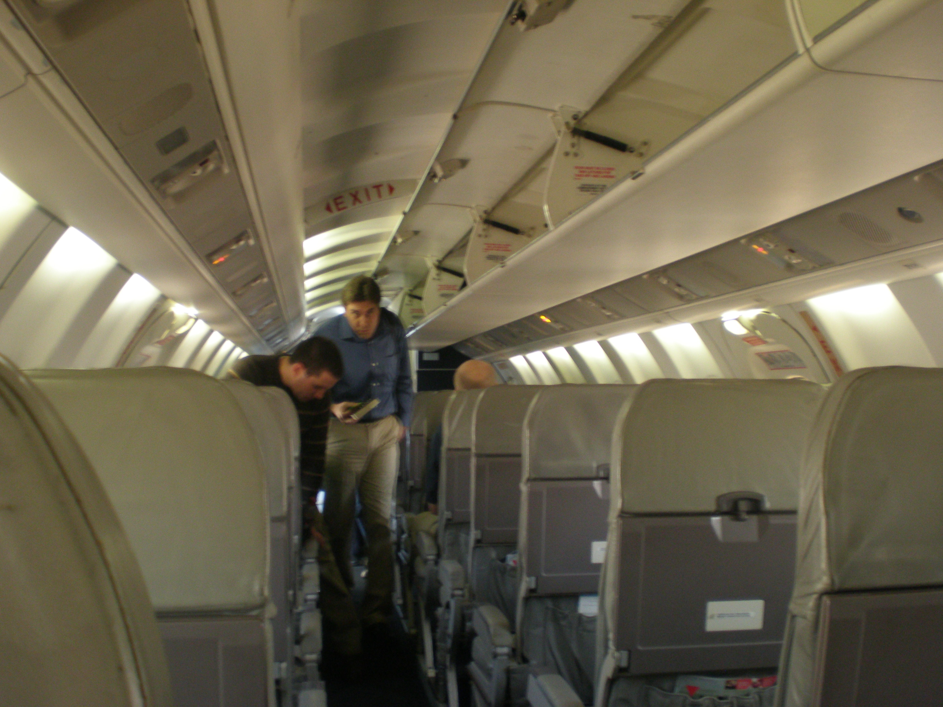 Interior of a Saab 340